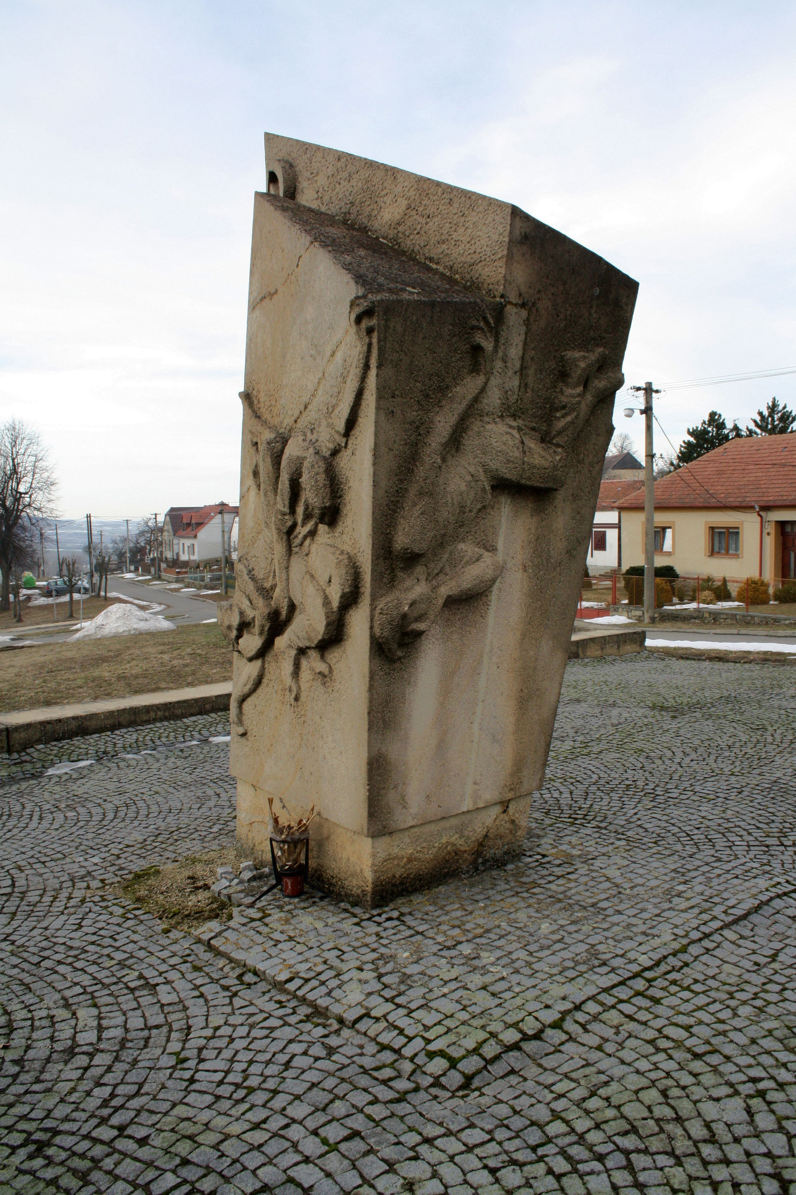 Memorial of murdered victims of Babice Case.